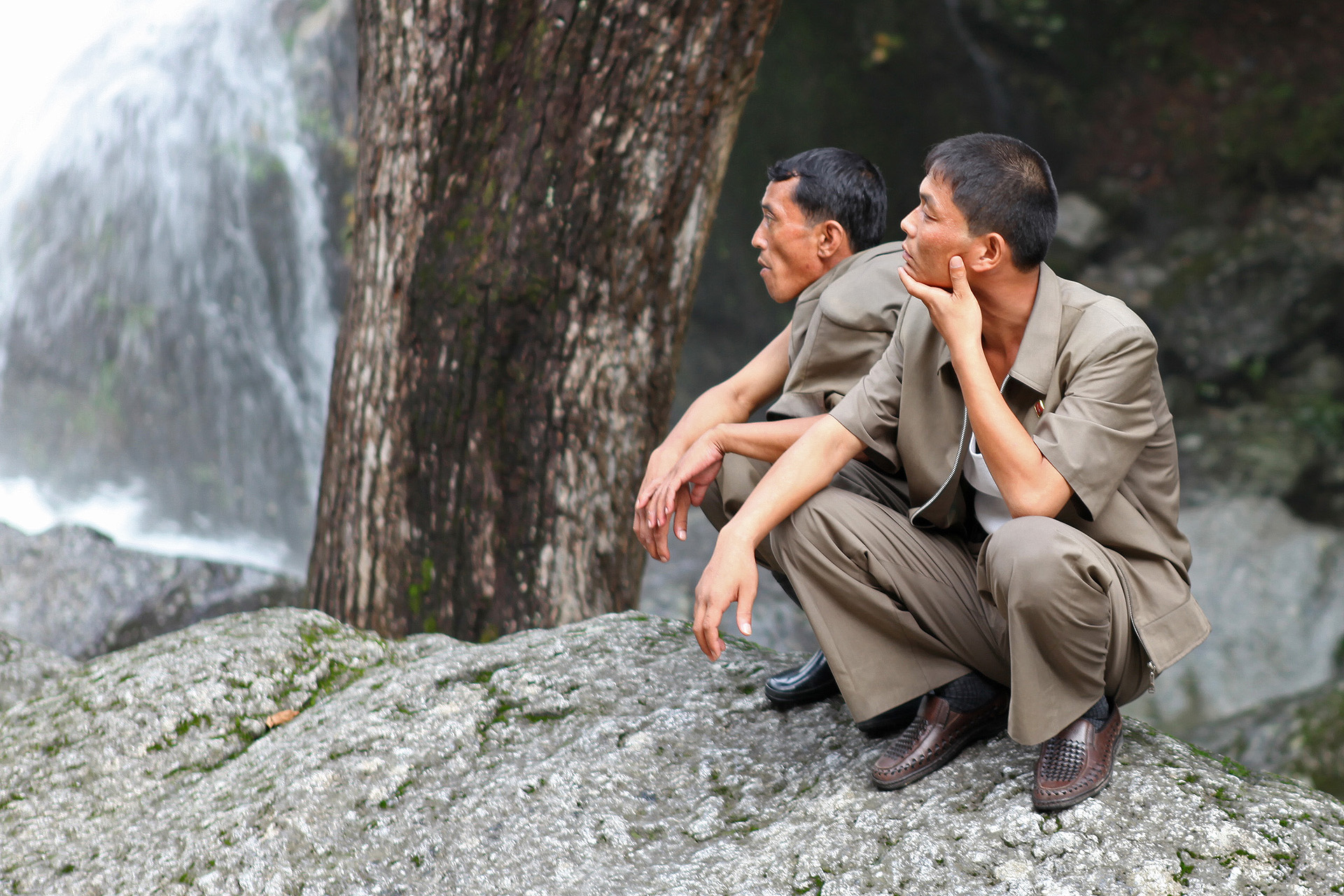 'Valley of Falls' - Myohyang Mountains. In North Korea, jeans are illegal. Everyone wears strange uniforms maded from "Vinalon". Vinalon is resistant to heat and chemicals but has numerous disadvantages: it is stiff, uncomfortable, shiny, prone to shrinking and difficult to dye.